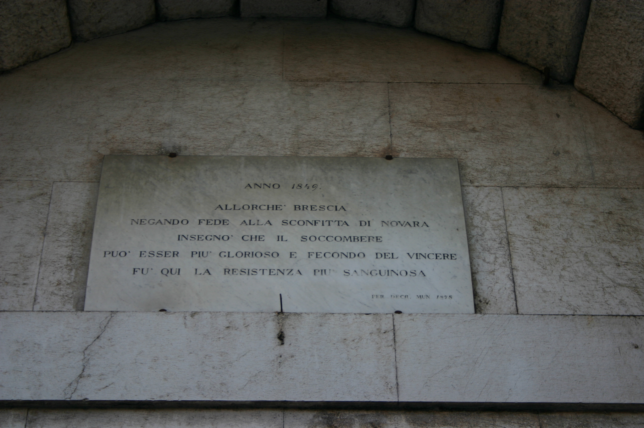 Mercato dei grani (Brescia). Picture by Stefano Bolognini.